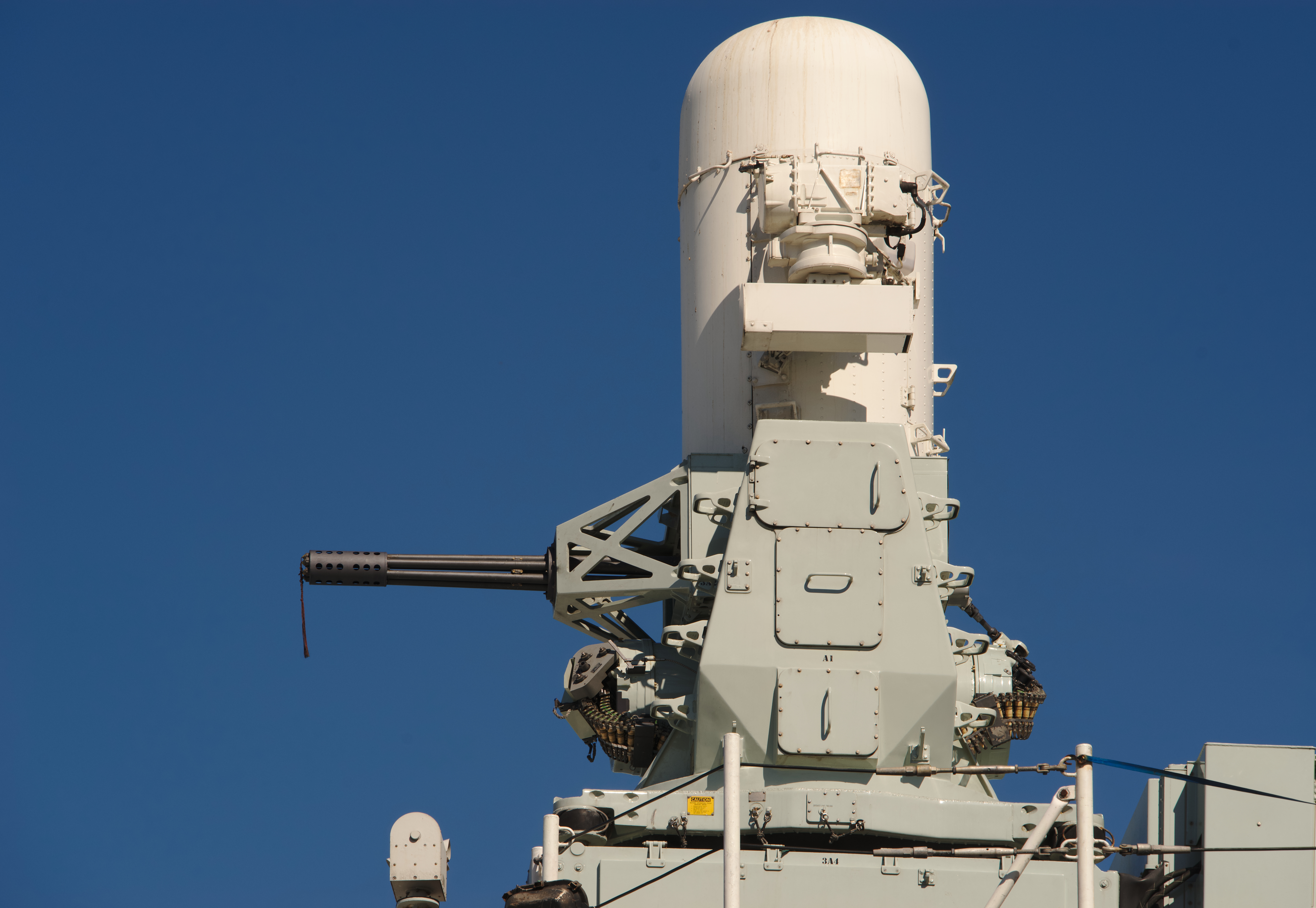 A Phalanx CIWS on the HMCS Calgary, a Canadian frigate.